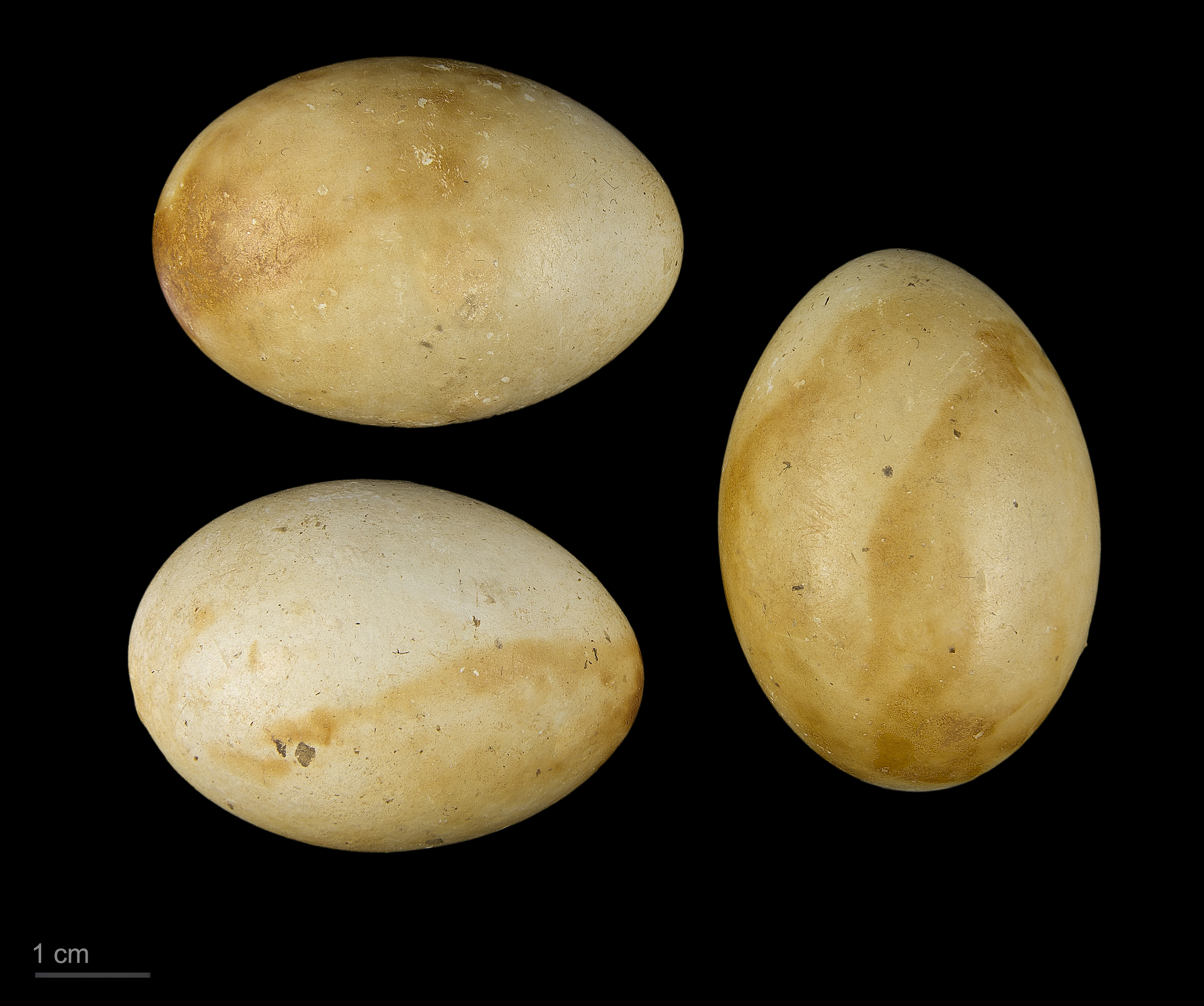 Eggs of black-necked grebe collection of Jacques Perrin de Brichambaut.